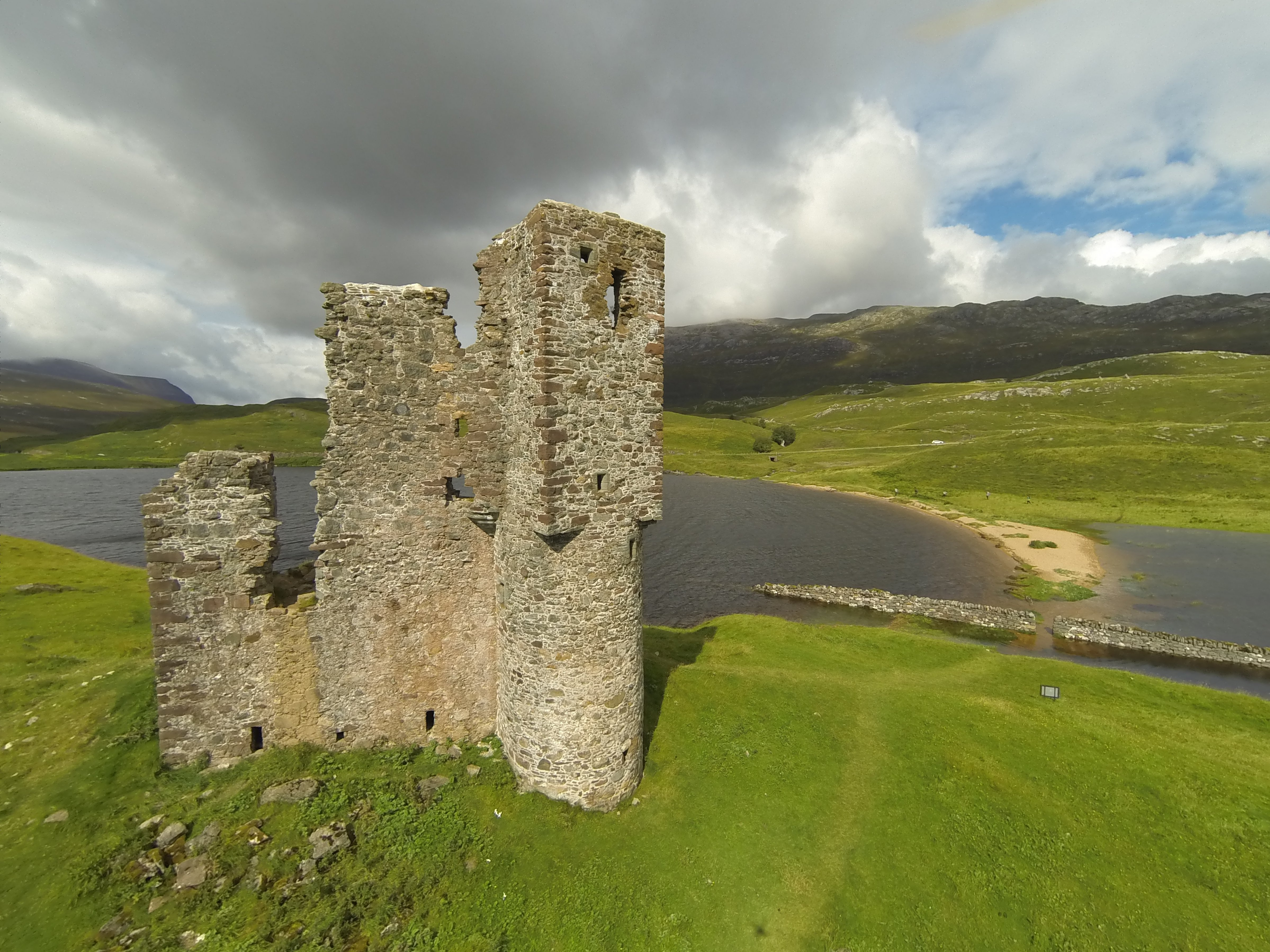 The ruins of Ardvreck Castle, seen from the south west at Loch Assynt in Scotland